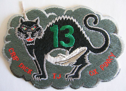 This is an alternate patch design created by the Astronauts, making a joke on the Friday the 13th landing.